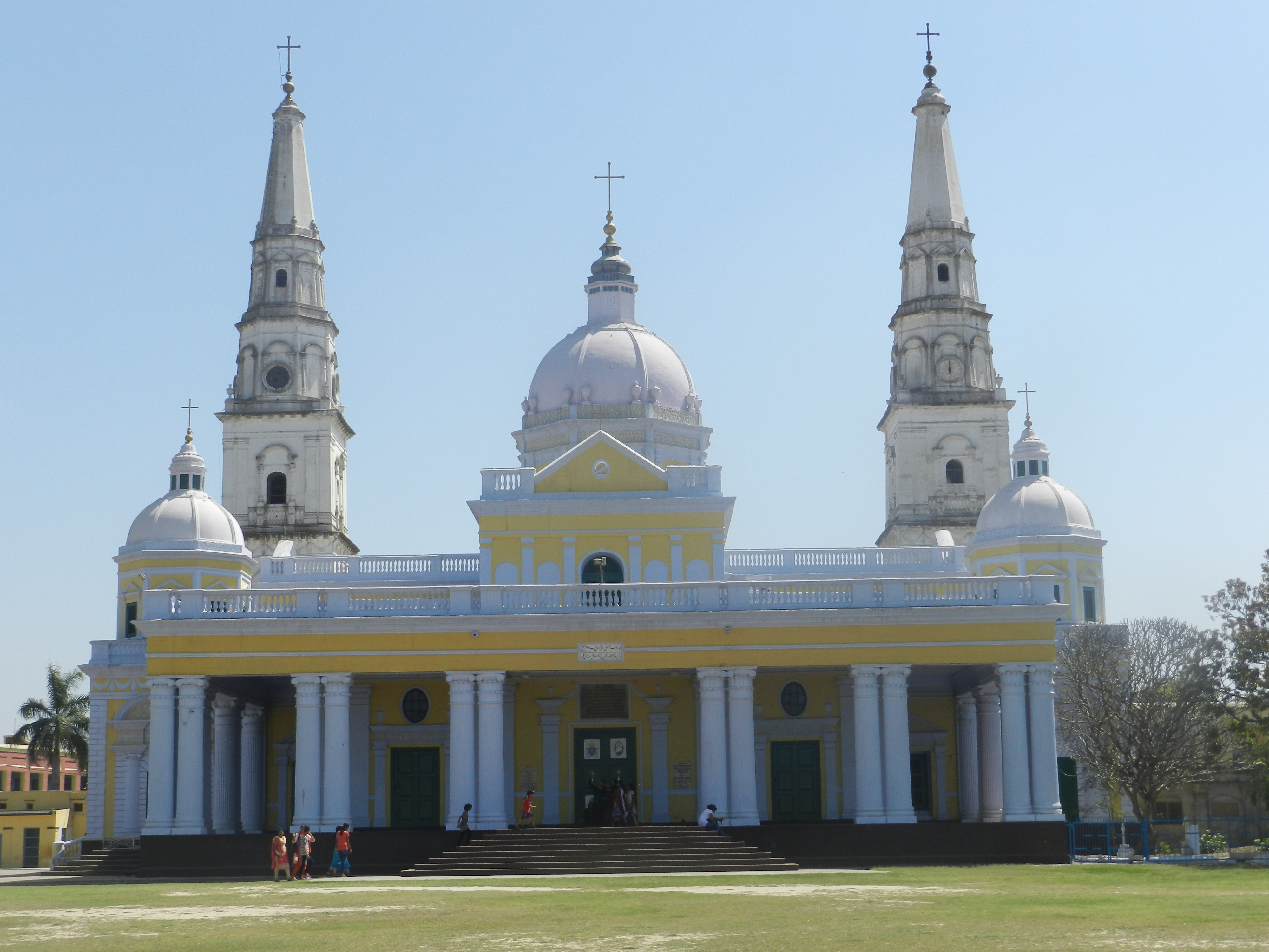 Front view of the Basilica of Our Lady of Graces in Sardhana, UP, India